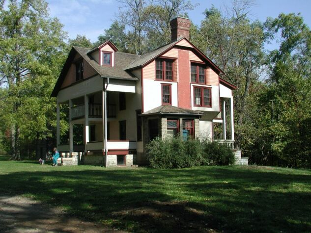 Main Bailly Home